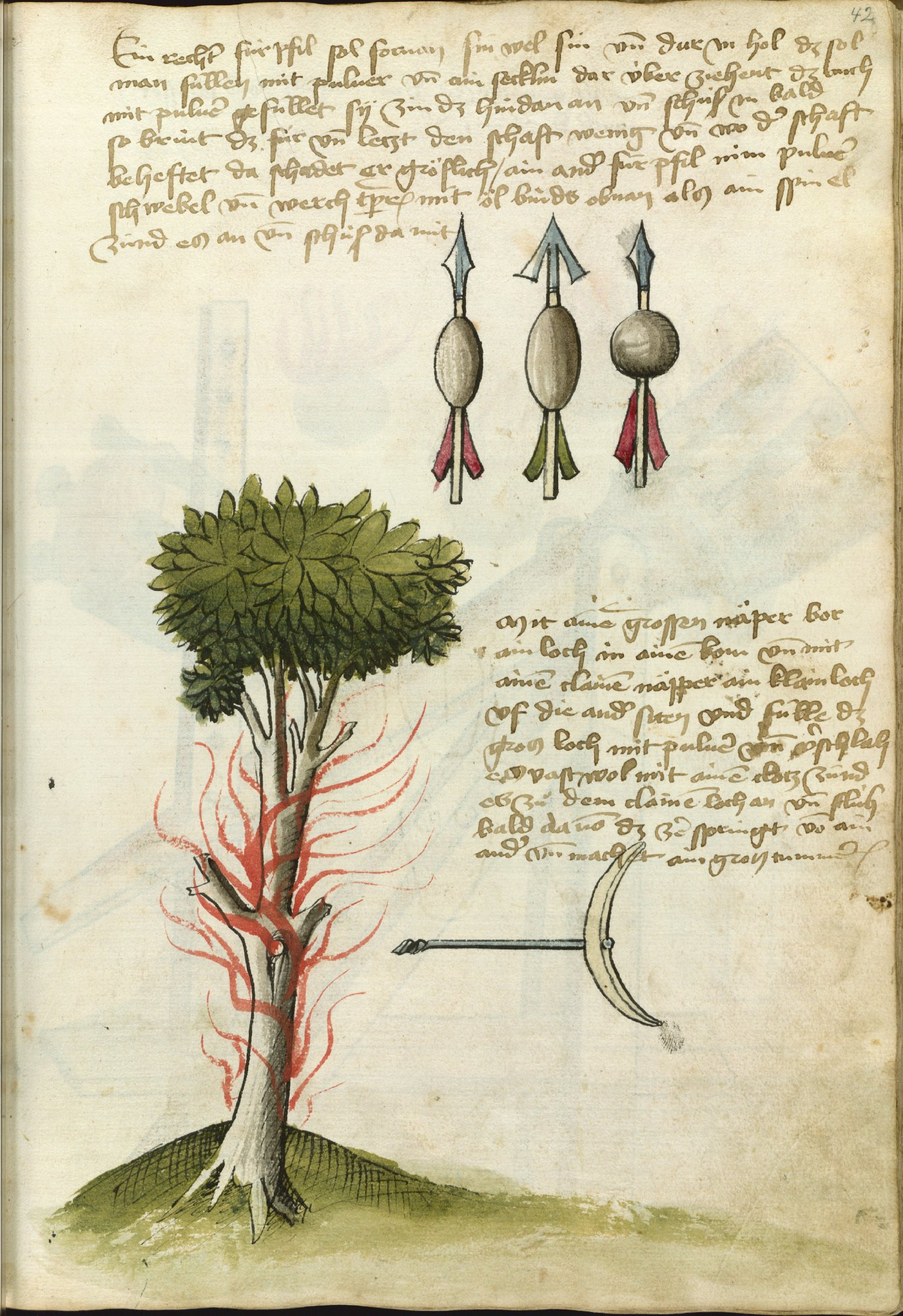 The Ms.Thott.290.2º is a fencing manual written in 1459 by Hans Talhoffer for his own personal reference and illustrated by Michel Rotwyler.